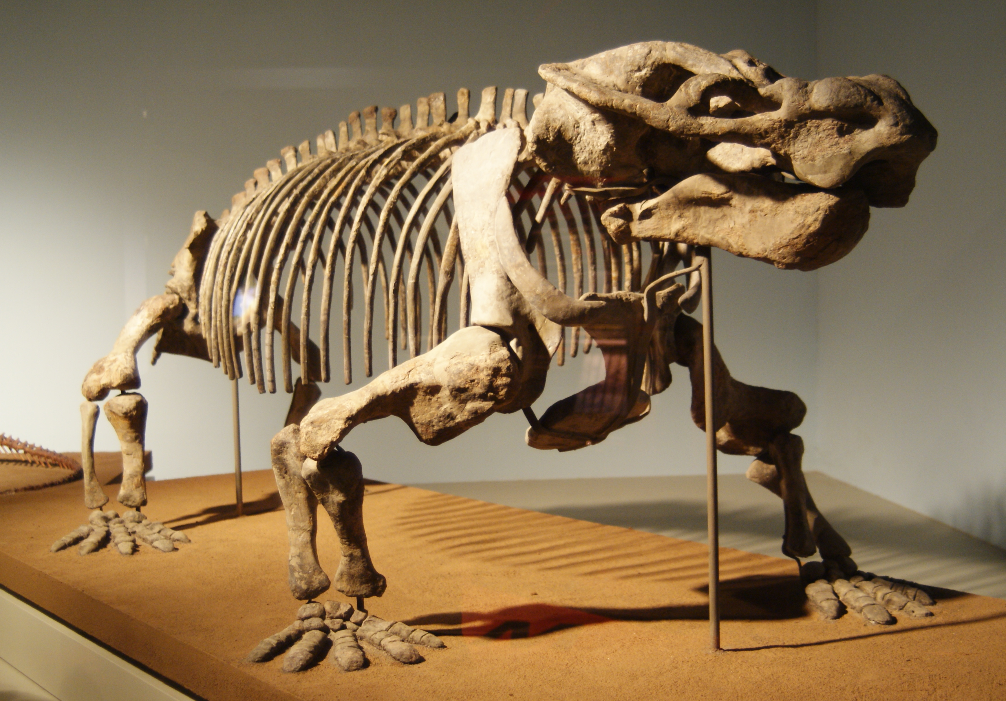 At the Field Museum's Evolving Planet Exhibit, Chicago, IL